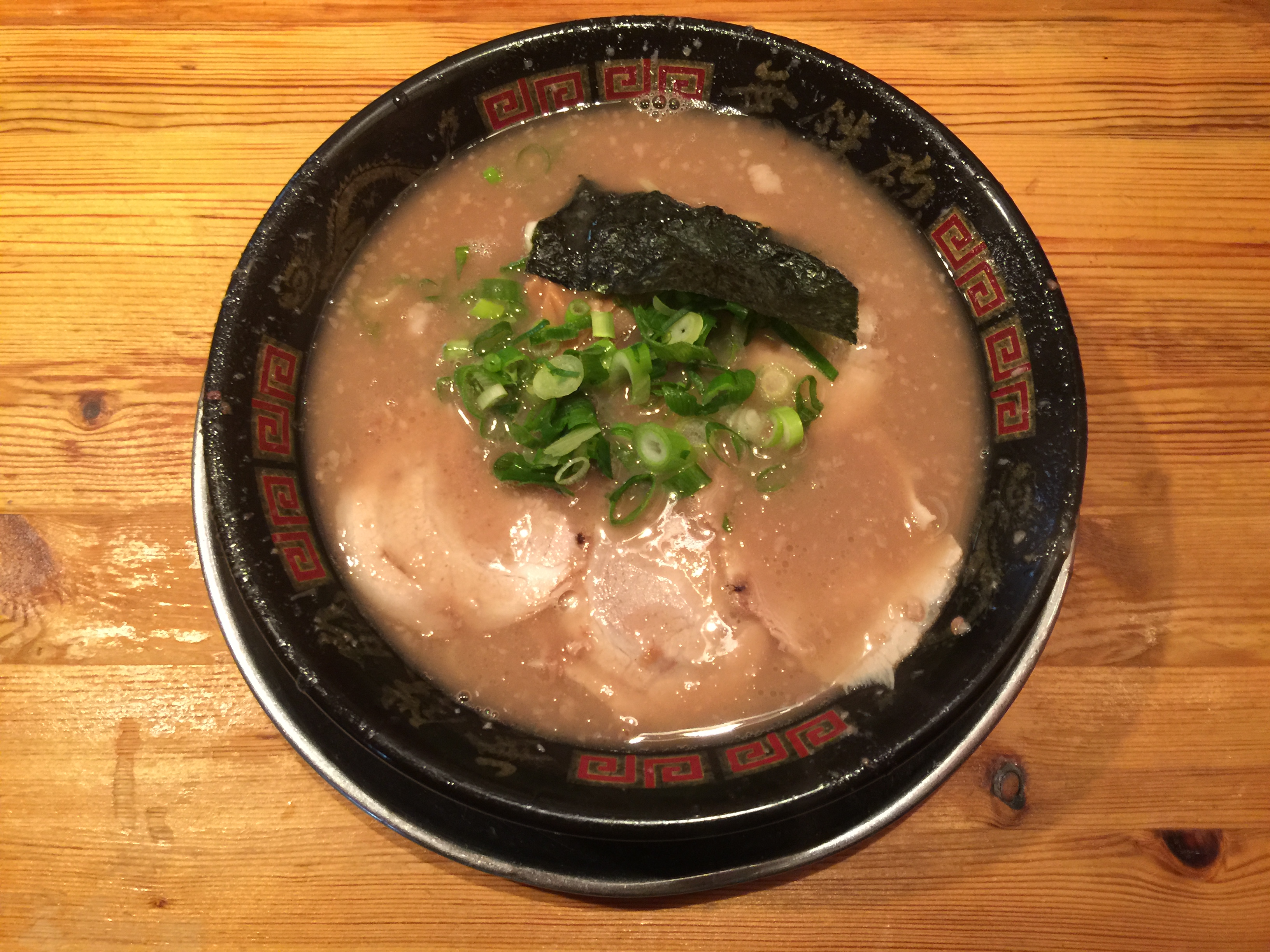 Muteppu Kyoto double blend soup tonkotsu6 fish4.